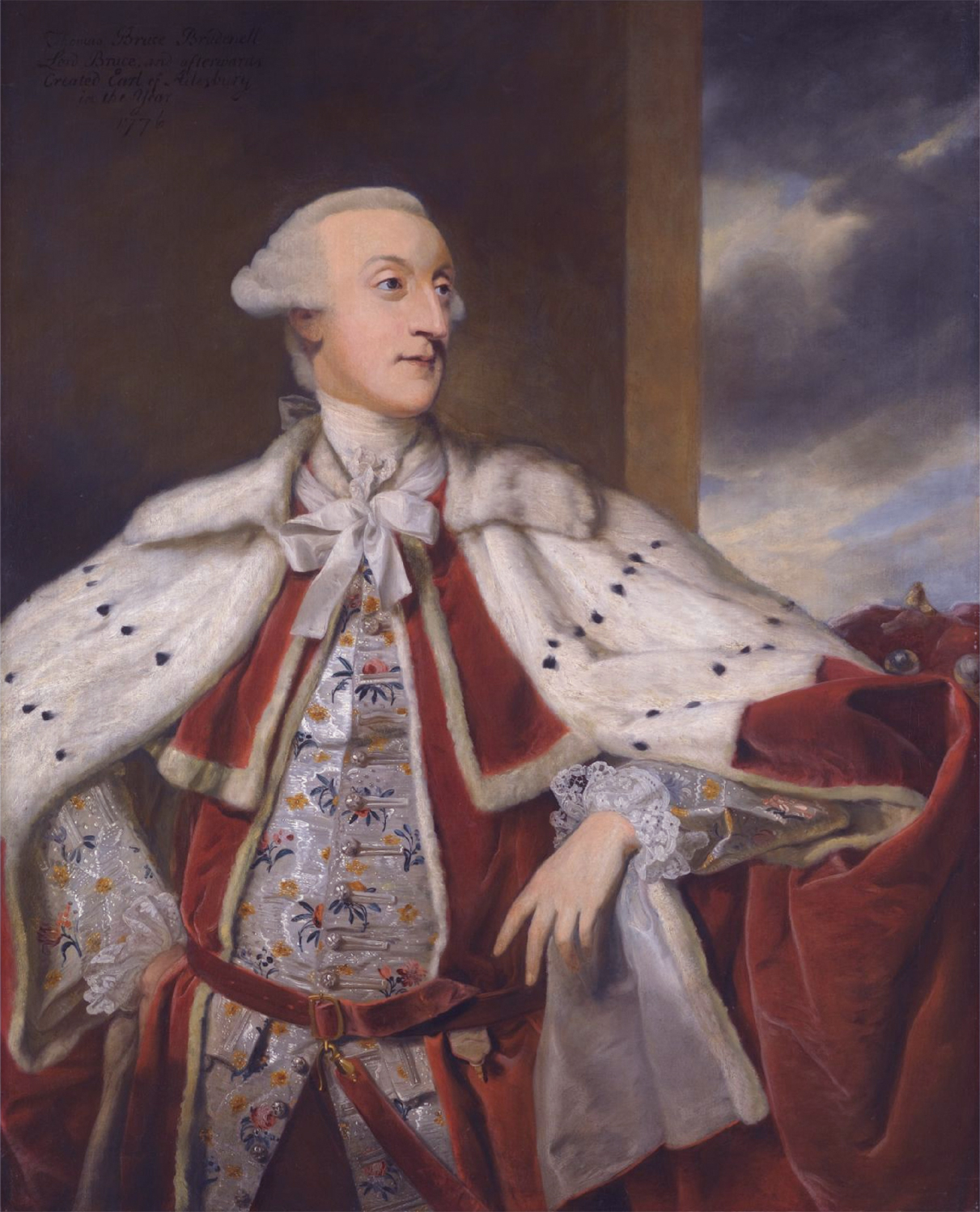 A portrait of Thomas Brudenell-Bruce, 1st Earl of Ailesbury (30 April 1729 – 19 April 1814).